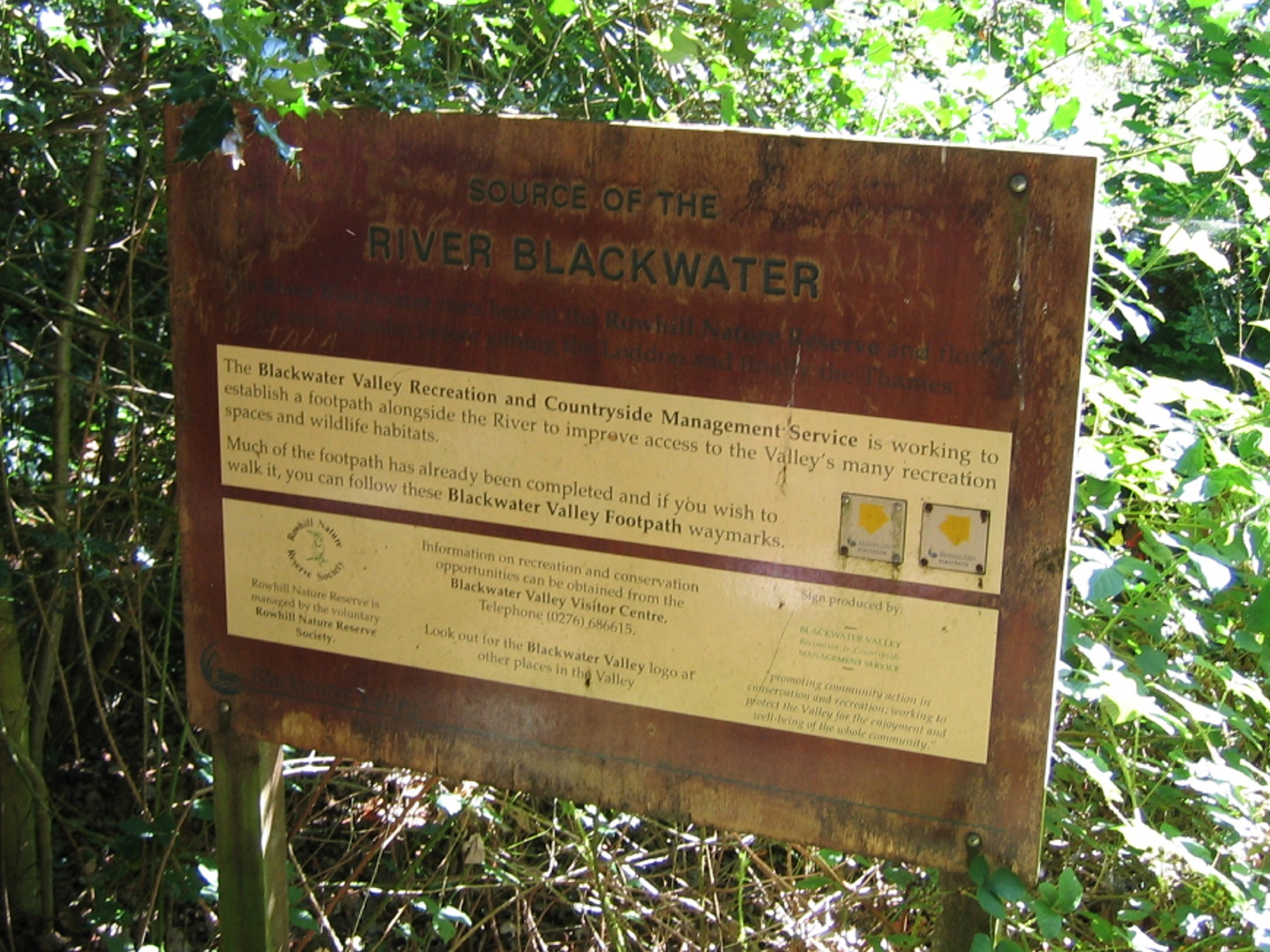 This photo is of a sign marking the source of the River Blackwater at Rowhill Nature Reserve, Hampshire. The surrounding area is overgrown - the sign being the only marking of where the river begins.